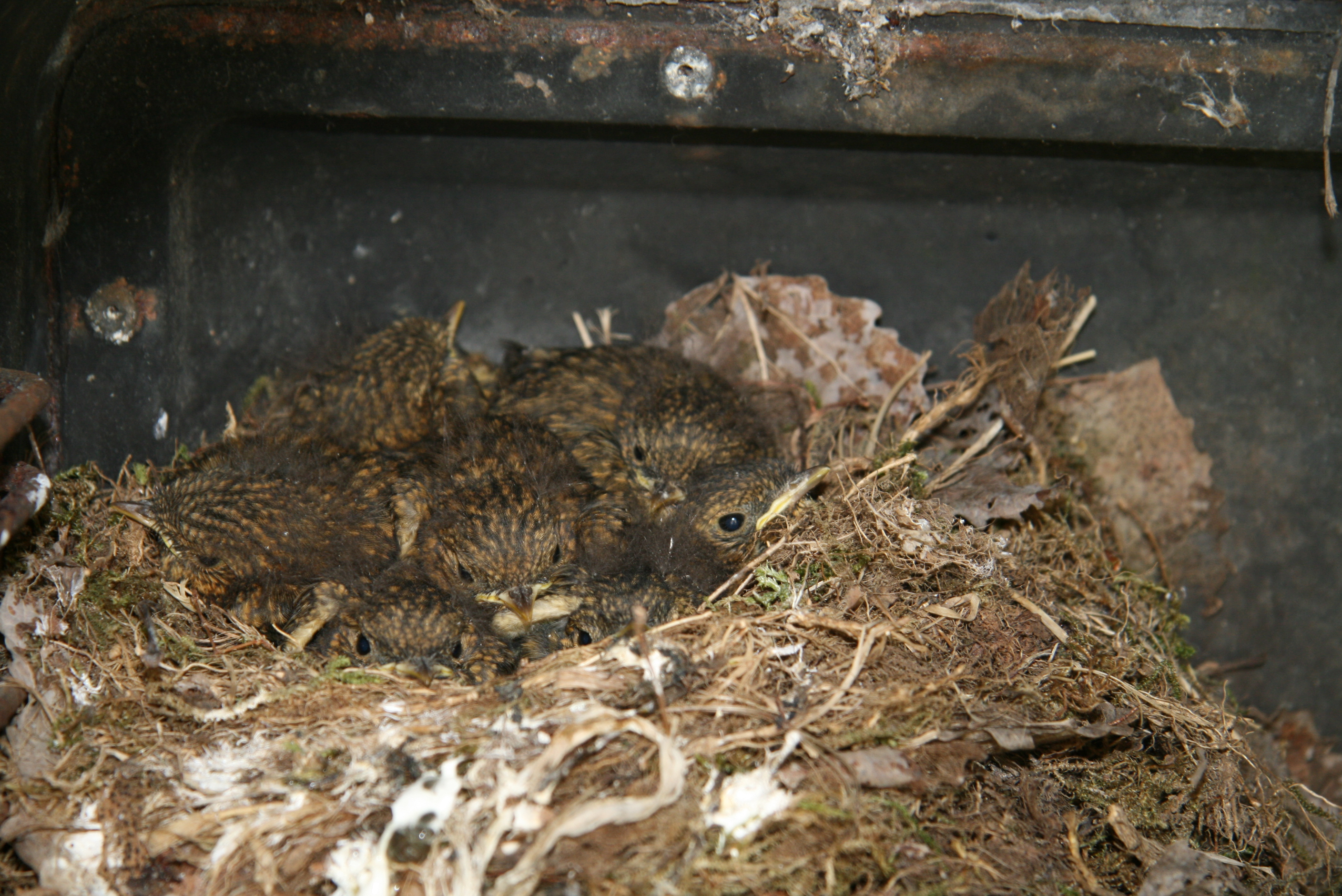 Baby European robins in a nest